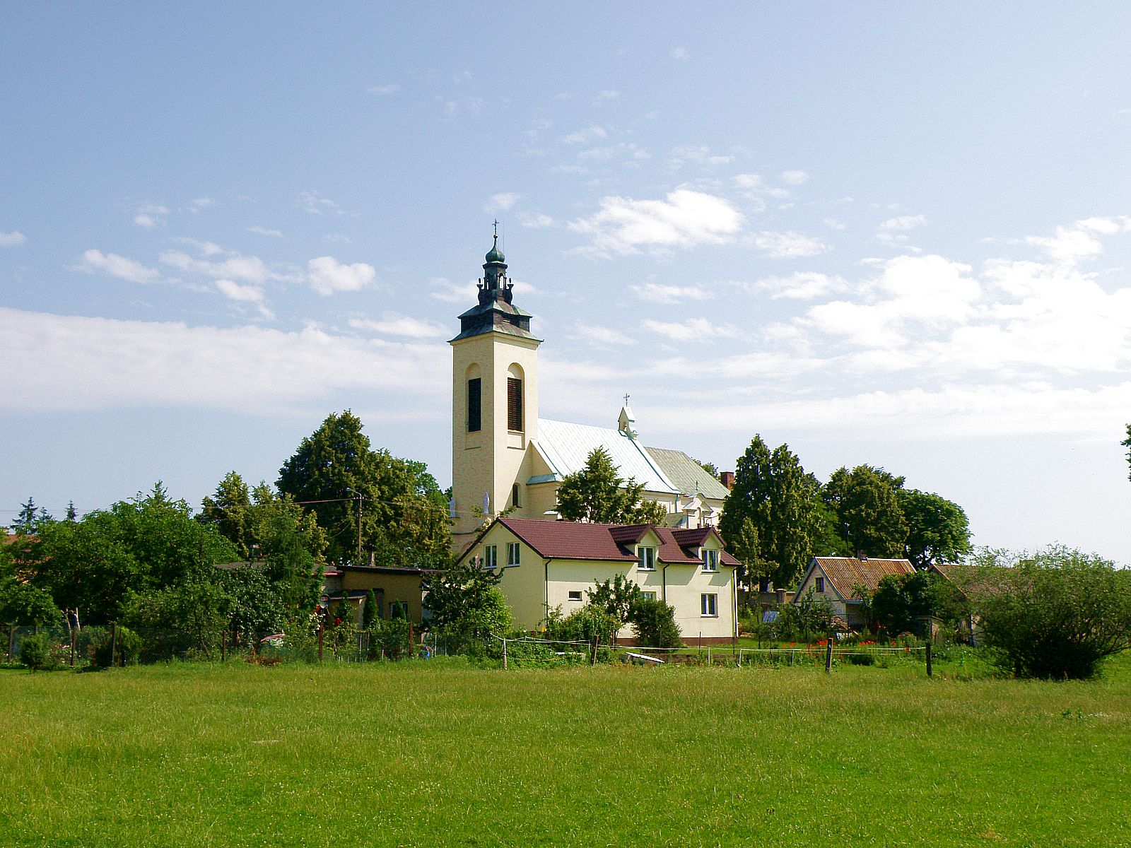 village of Pomiechowo, panorama